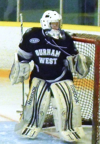 Taken by Devan Mighton during 2013-14 PWHL season.